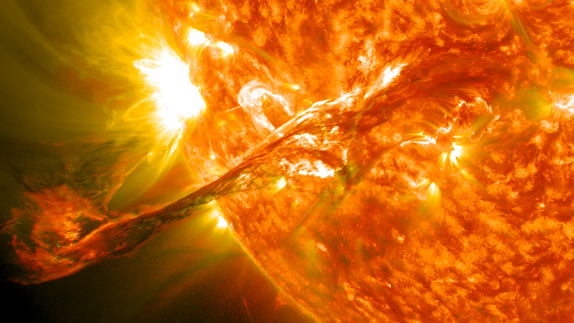 On August 31, 2012 a long filament of solar material that had been hovering in the sun's atmosphere, the corona, erupted out into space at 4:36 p.m. EDT. The coronal mass ejection, or CME, traveled at over 900 miles per second. The CME did not travel directly toward Earth, but did connect with Earth's magnetic environment, or magnetosphere, causing aurora to appear on the night of Monday, September 3. Pictured here is a lighten blended version of the 304 and 171 angstrom wavelengths taken from the Solar Dynamics Observatory. Cropped